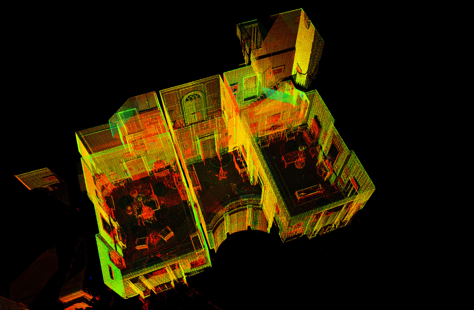 3D Laser Scan data cutaway of the interior of Tudor Place. The Parlour, Saloon and the Drawing Room can be seen in this scan data.